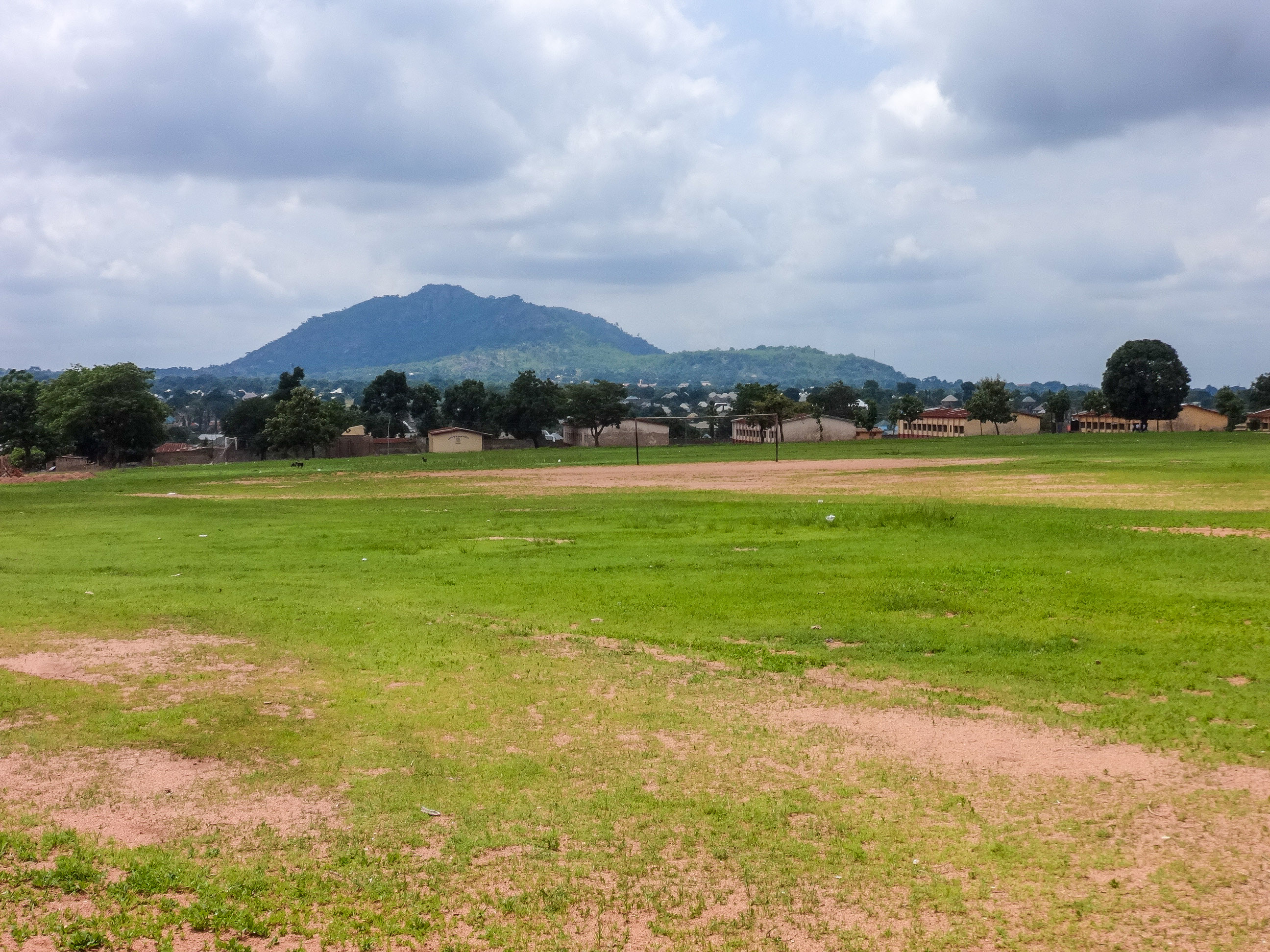 Distant view of Mkar hill, from Government Secondary School (GSS), Mkar, Gboko, Benue state, Nigeria